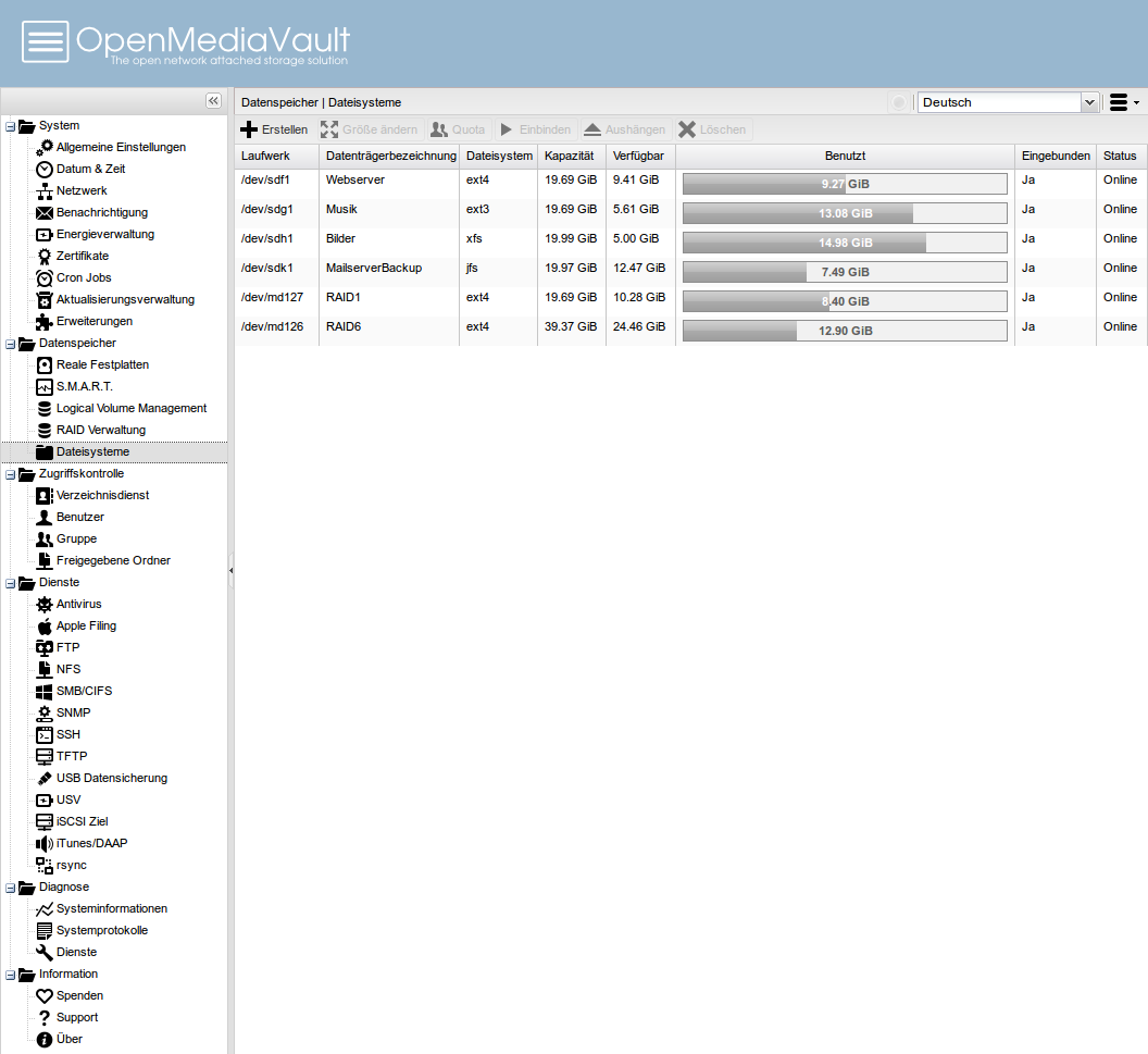 OMV Webinterface